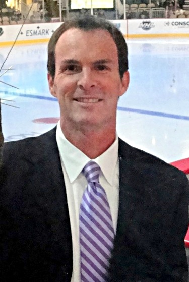 Bob Errey, former player and current television color commentator for the Pittsburgh Penguins, waits between the benches to call a game against the New Jersey Devils, January 7, 2012.